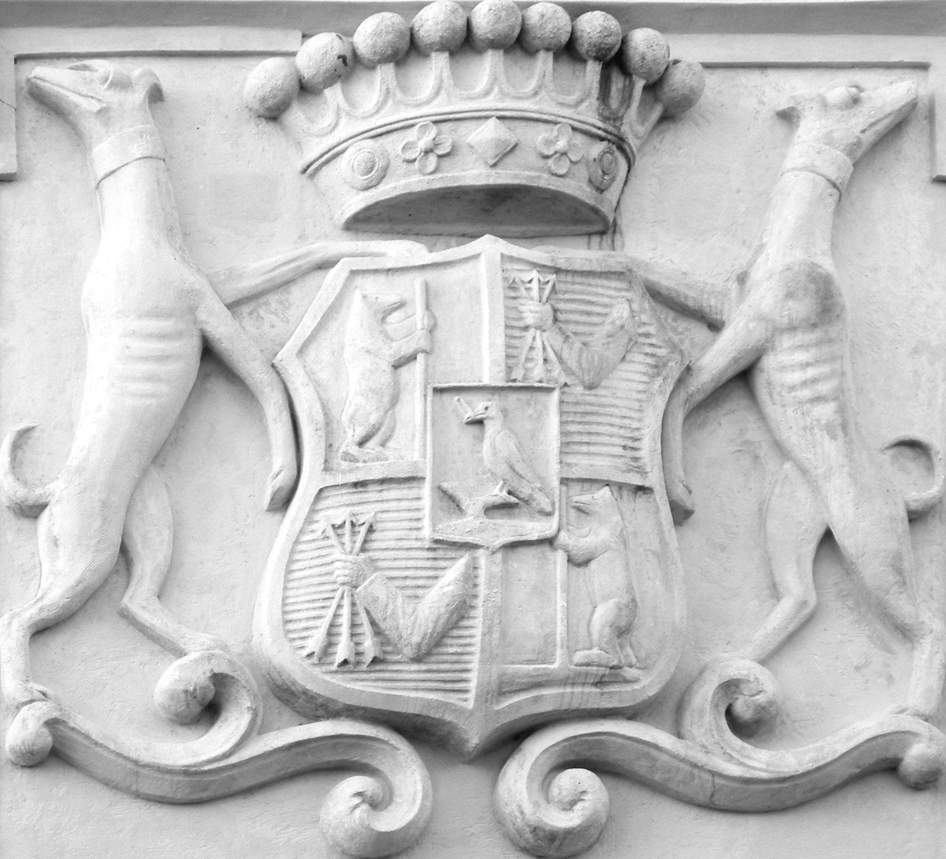 Coat of arms of Júlia Hunyady kéthelyi / de Kéthely (1831 - 1919). Manor house in Ivanka pri Dunaji. Facade.